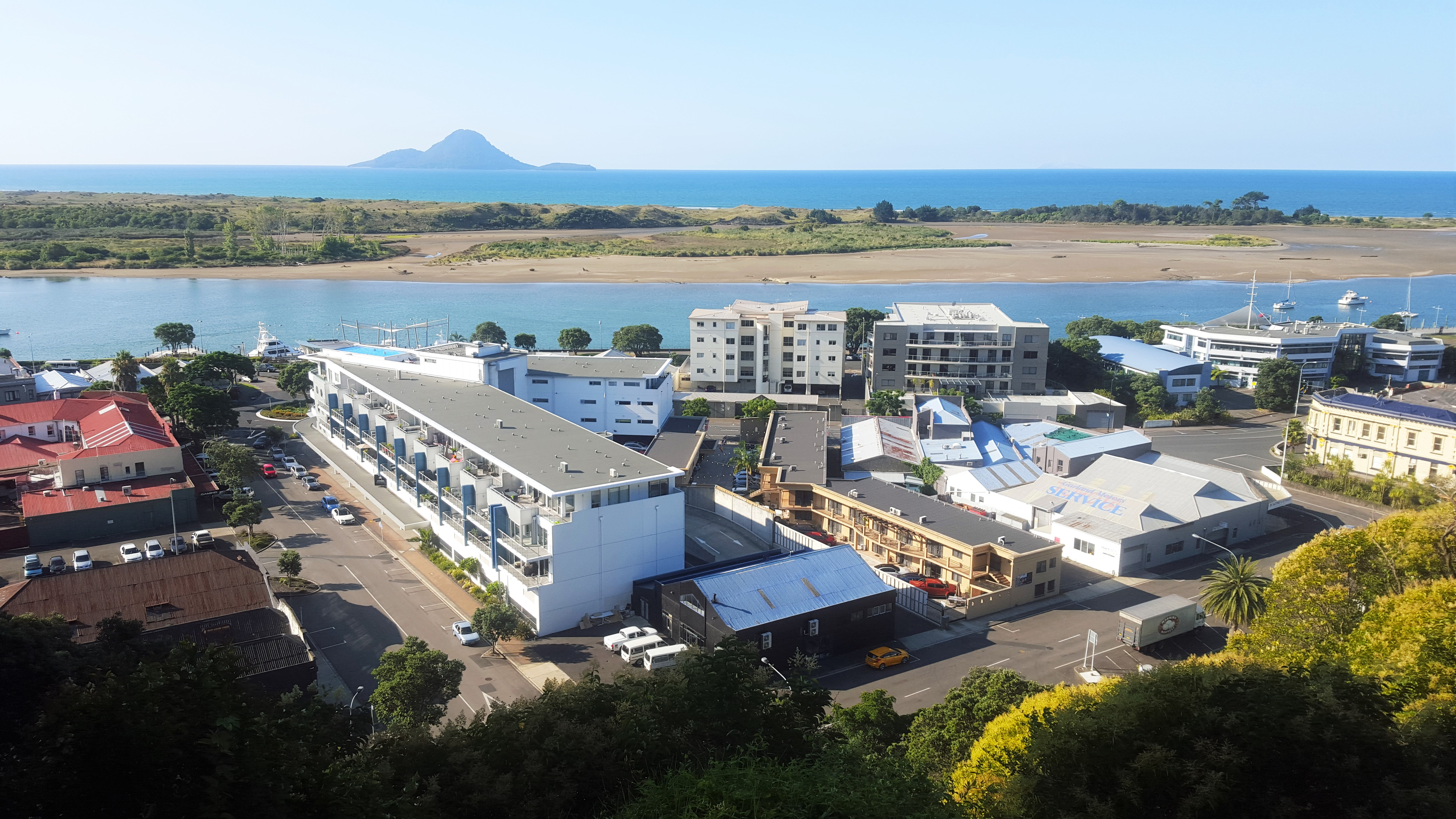 Looking down on the Whakatane CBD from the cliff tops immediately above the town (February 2016)